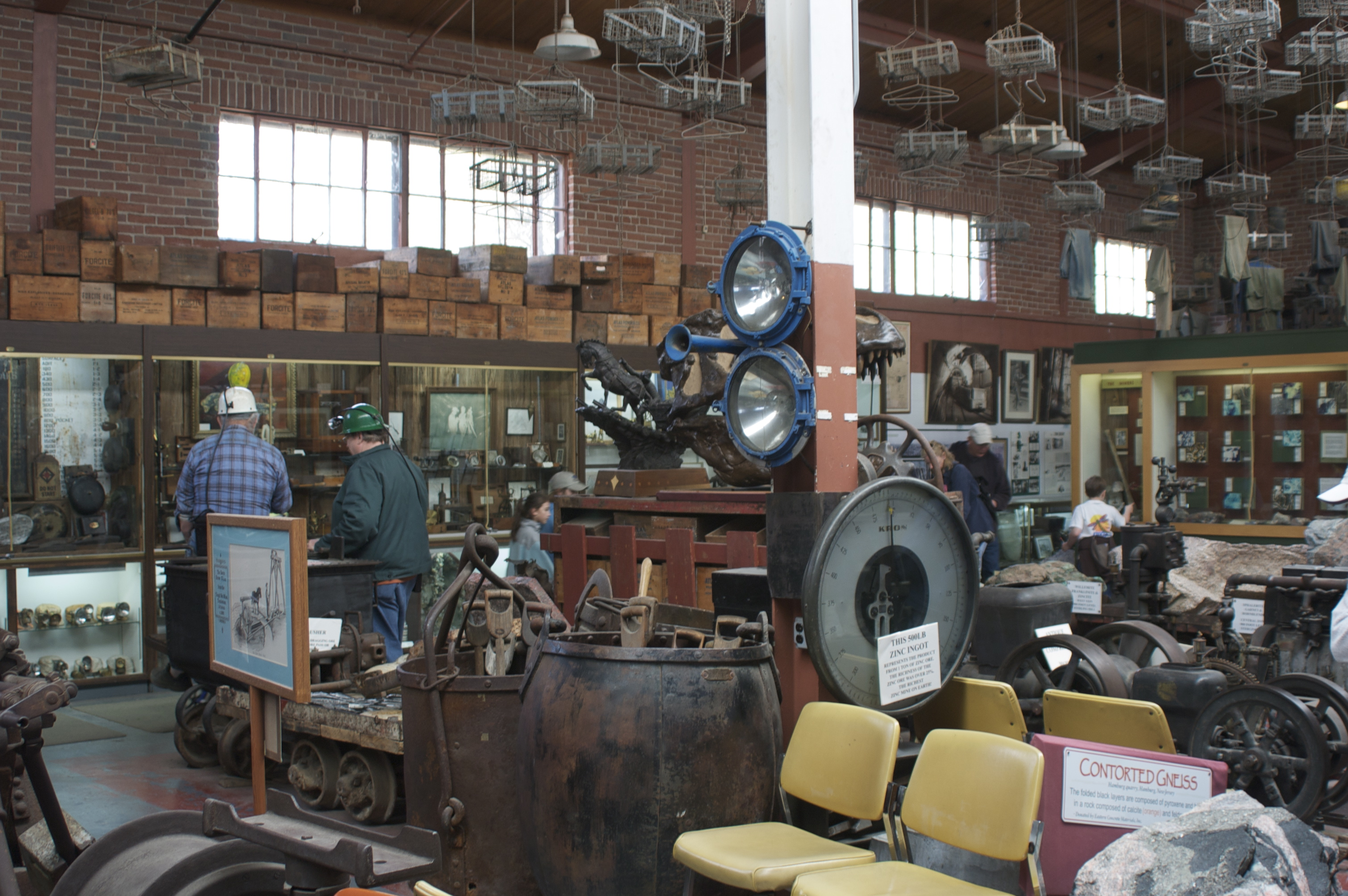 Exhibit hall of Sterling Hill Mining Museum